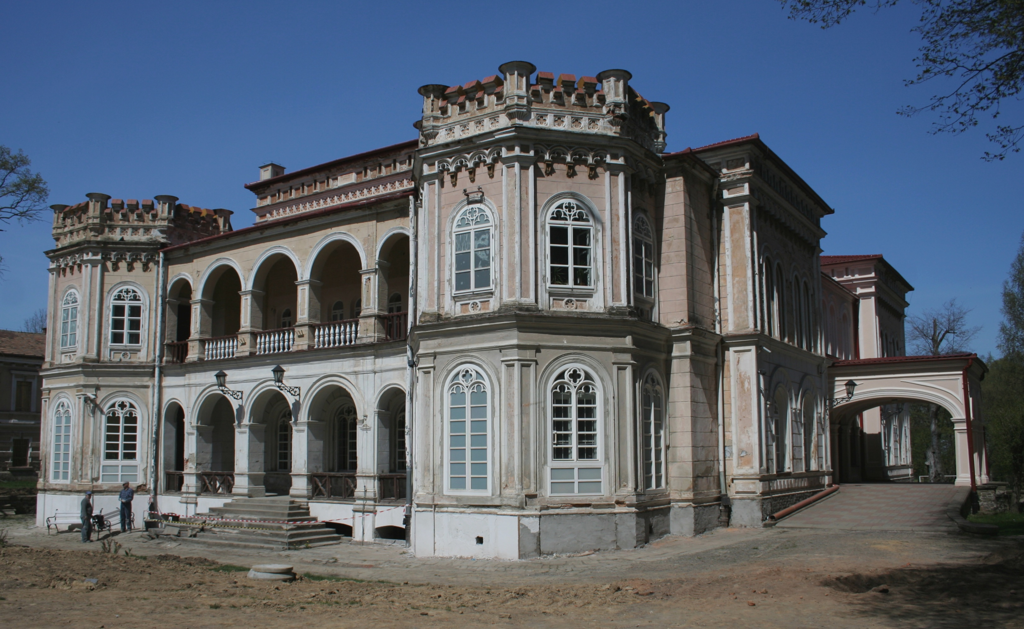 The palace of Wodziccy in Tyczyn, nowadays there is a public school.